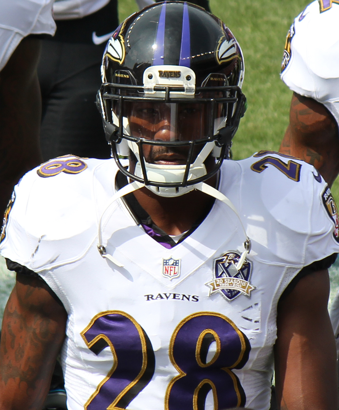 Brynden Trawick, a player on the National Football League.